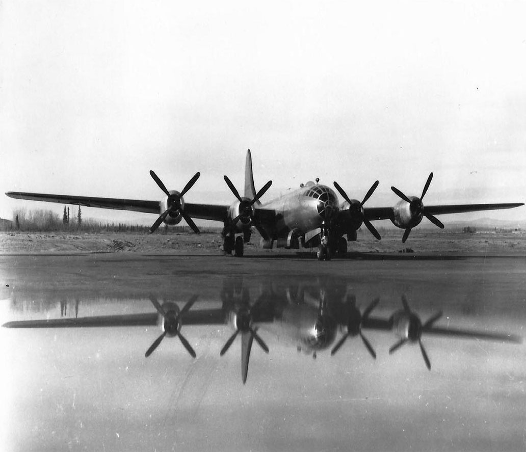 The F-13 that carried then-Maj. Maynard E. White, commander of the 46th Reconnaissance Squadron, and other Airmen, as well as military scientists, over the North Pole. This photo was taken just prior to its crash landing May 29, 1947. (Photo courtesy of Ken White)